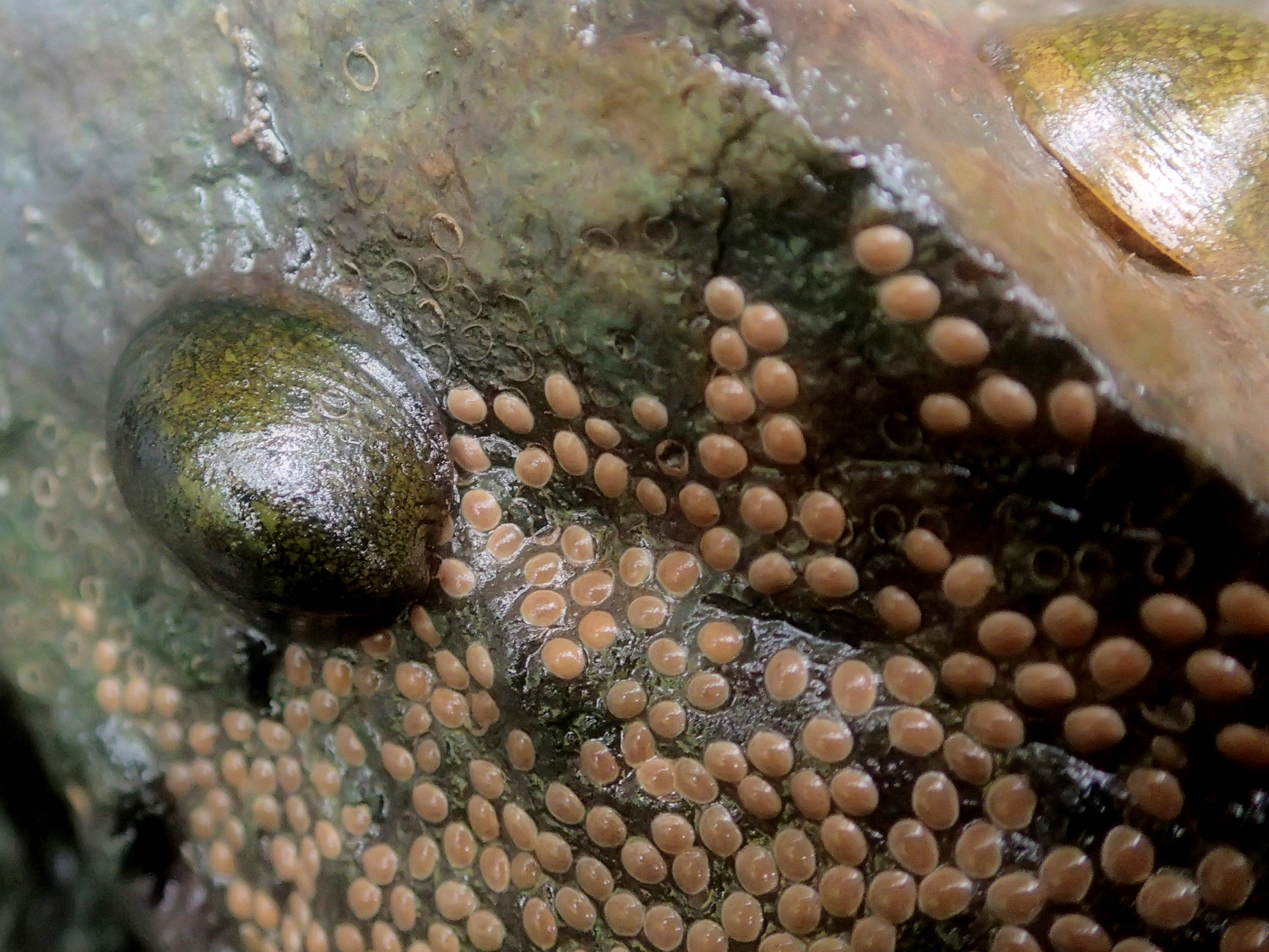 Septaria porcellana (Linnaeus, 1758) and its egg capsules from Chichijima Island, the Bonin Islands, Tokyo, Japan.